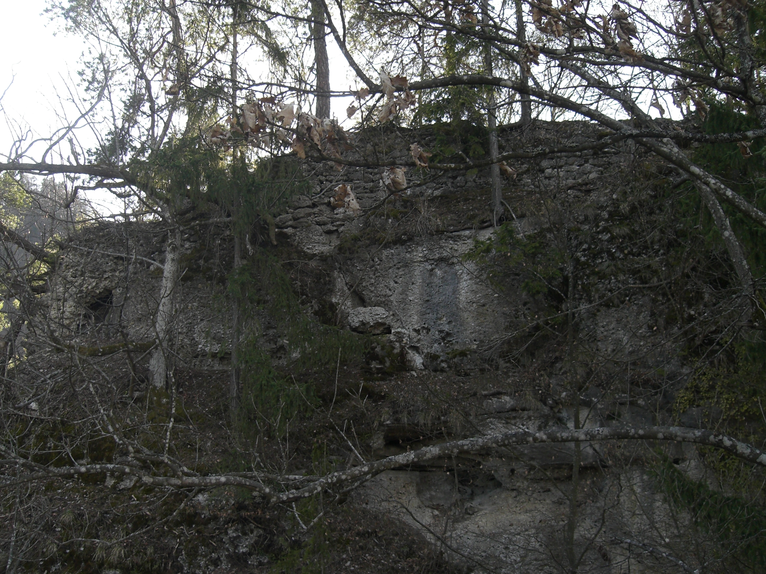 Eastern wall of the ruined Gurnitz castle near Ebenthal